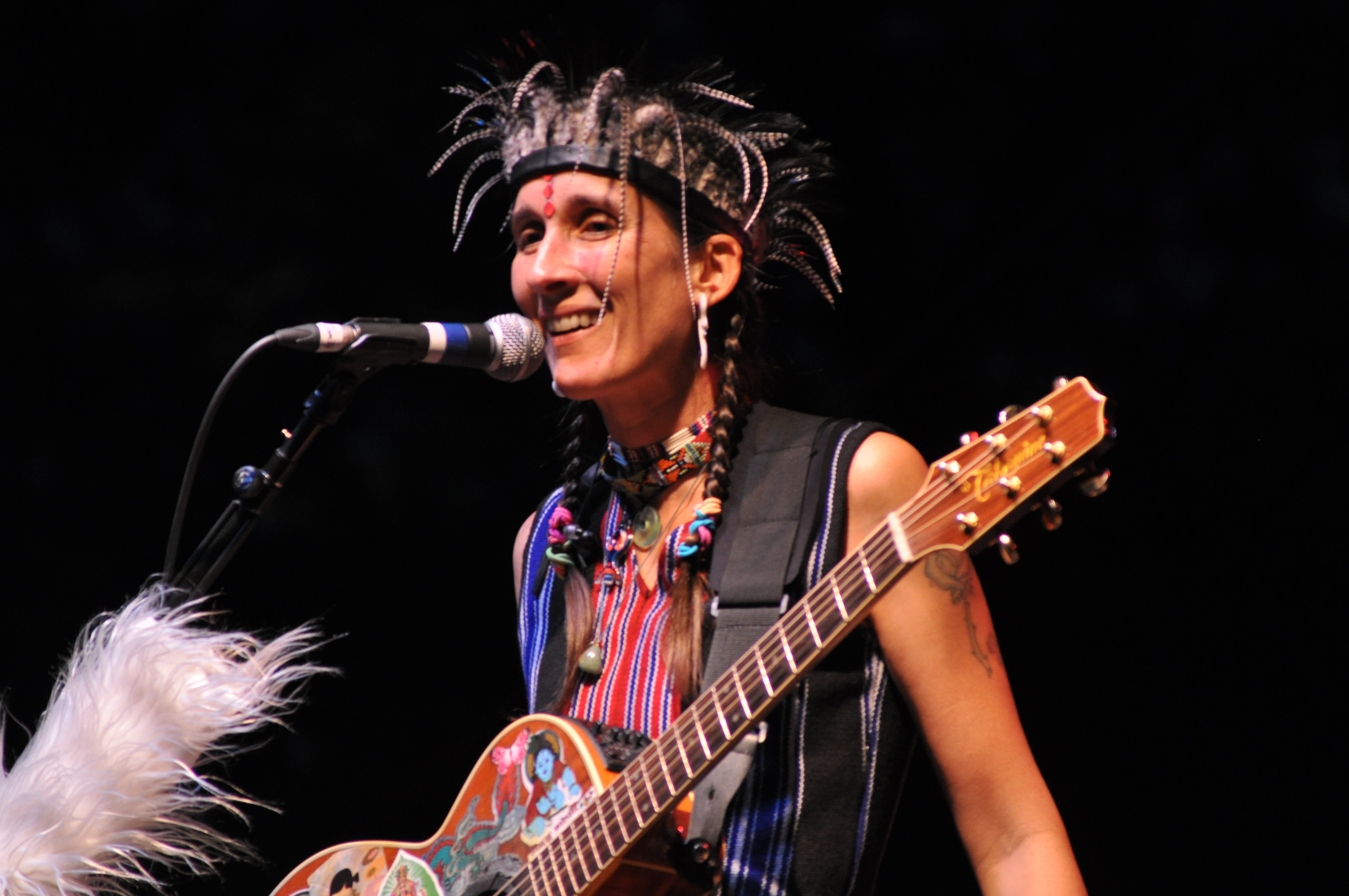 Andrea Echeverri performing with her band Aterciopelados at Bumbershoot, Seattle Center, Seattle, Washington.